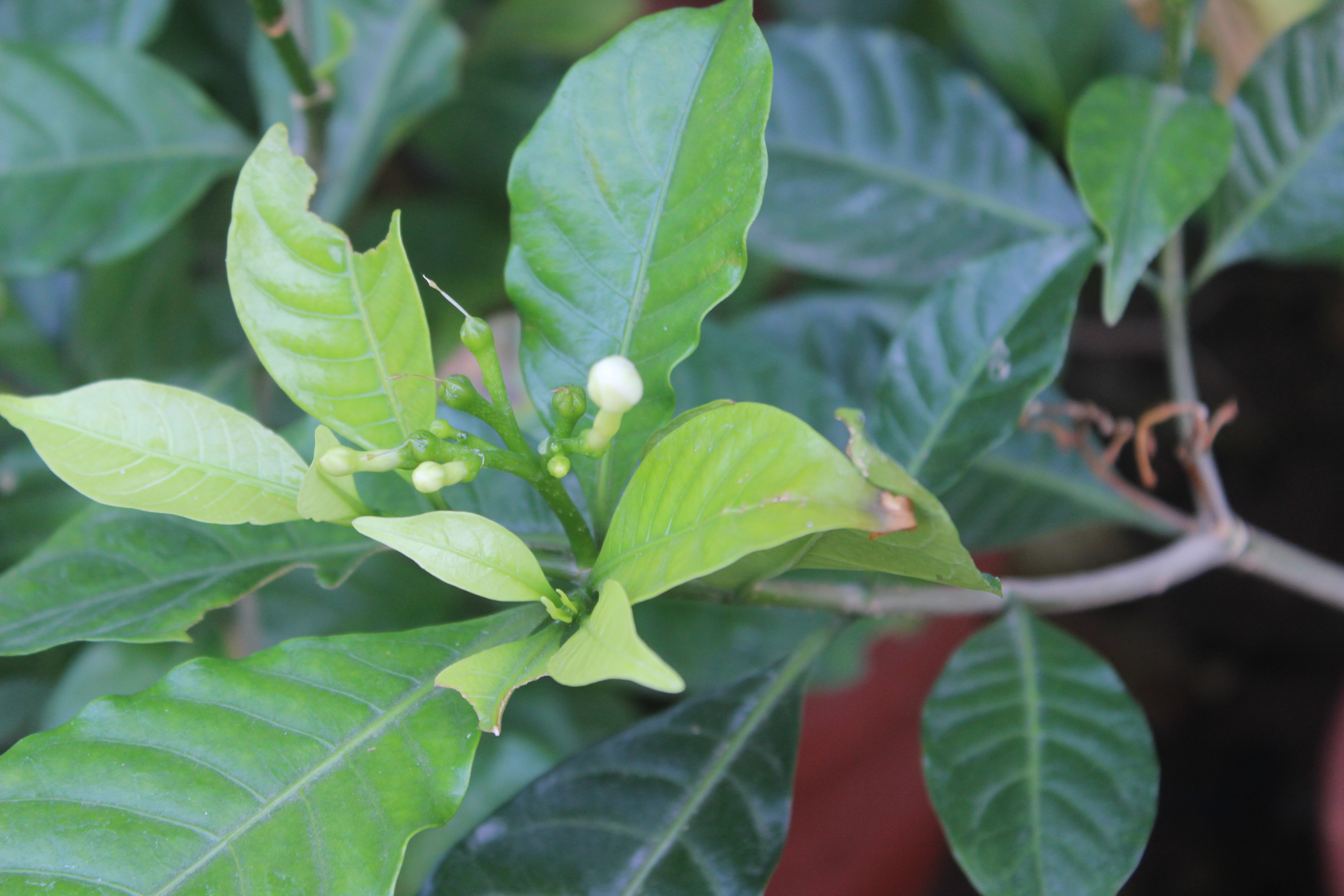 Adathoda